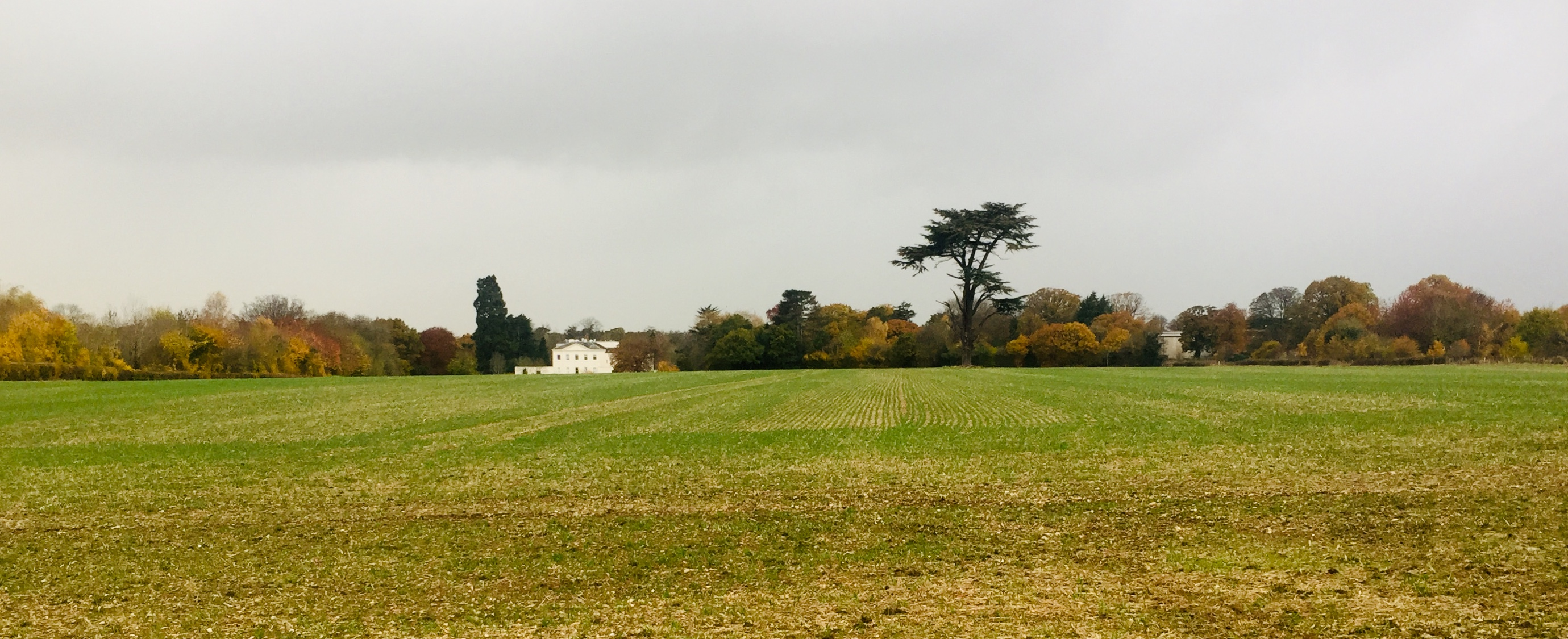 Ashlyns Hall seen across the estate land from Swing Gate Lane, Berrkhamsted